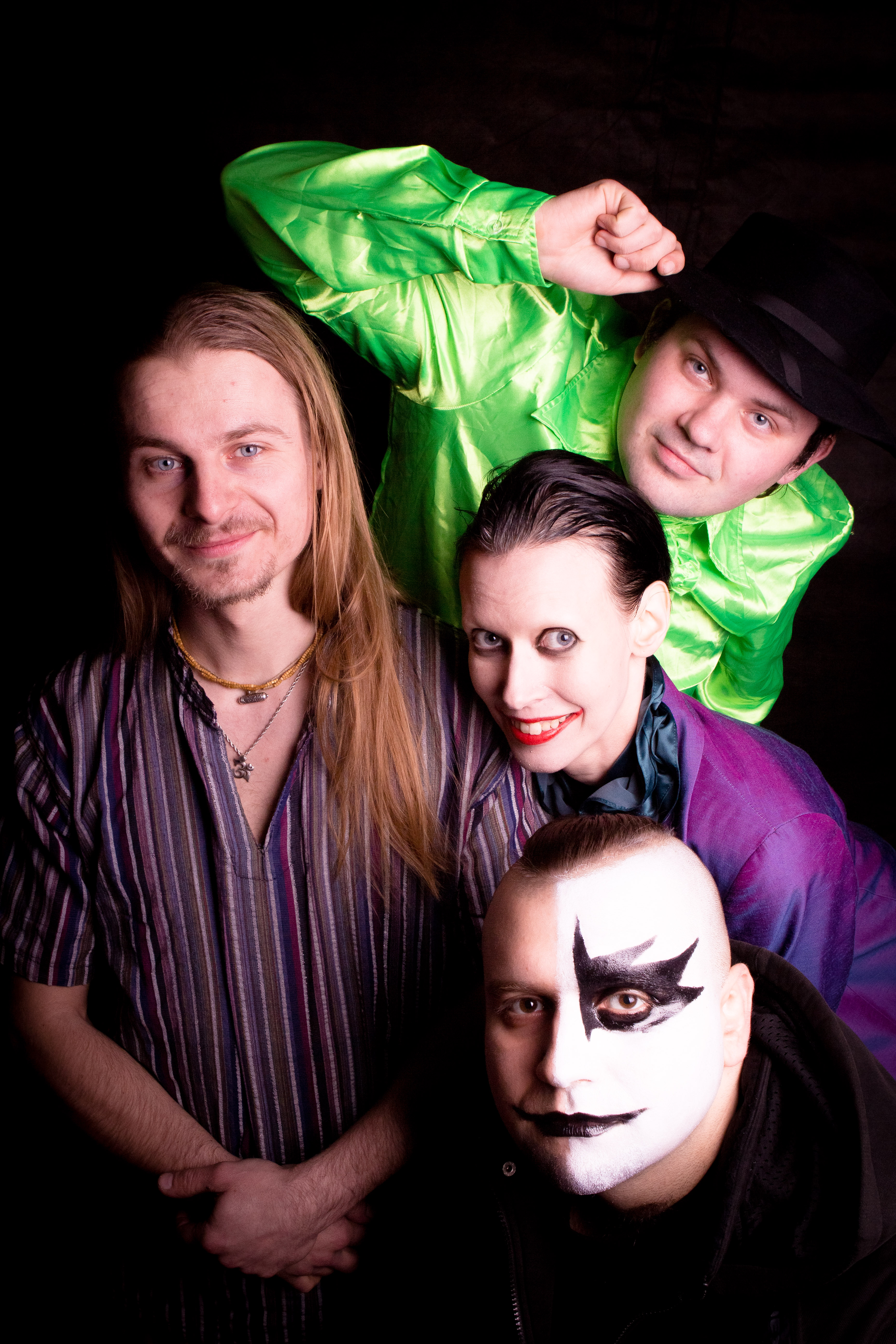 Music Band «Andros Land»